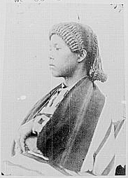 Betsileo woman